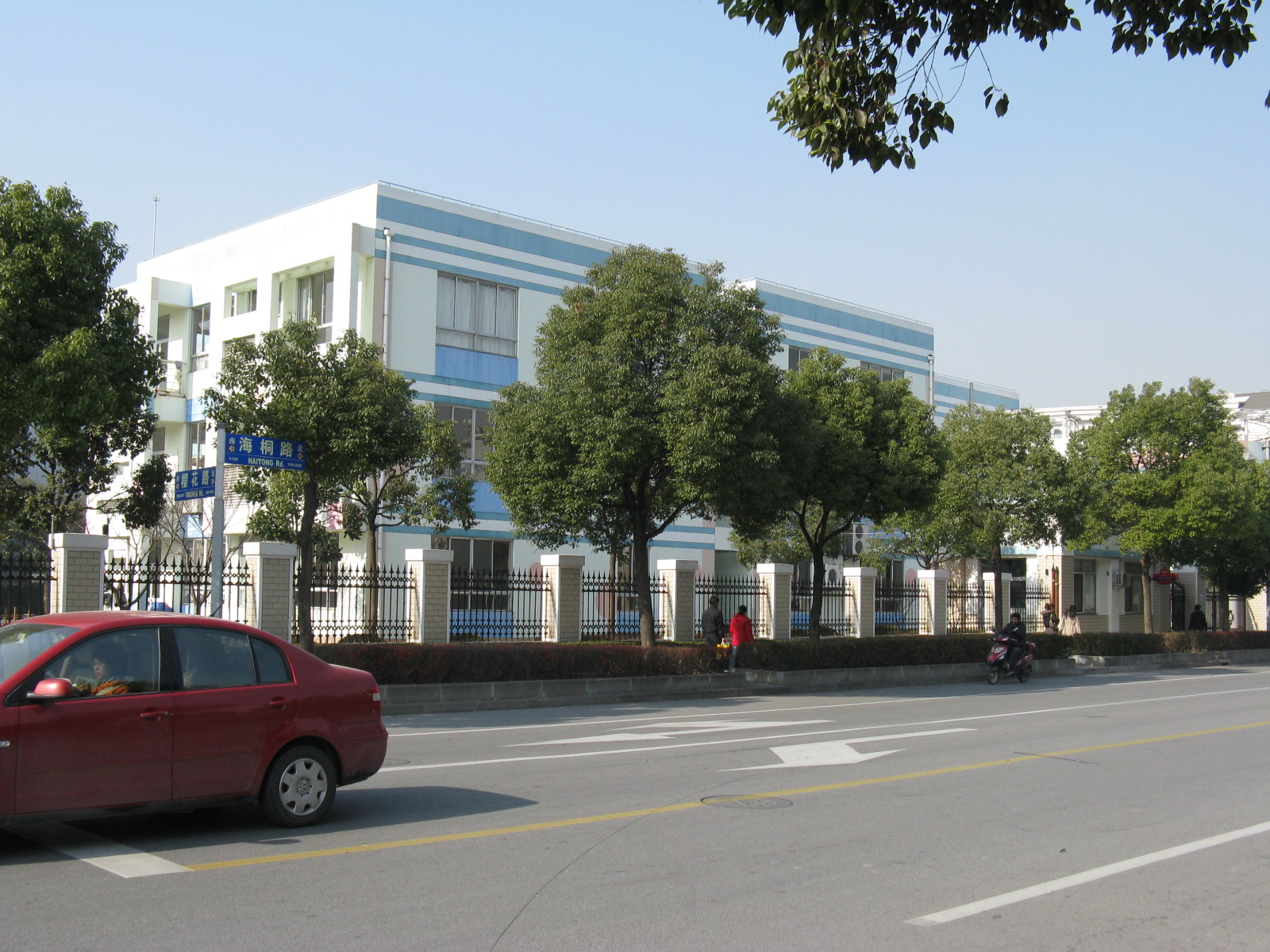 Haitong Road,Shanghai,China